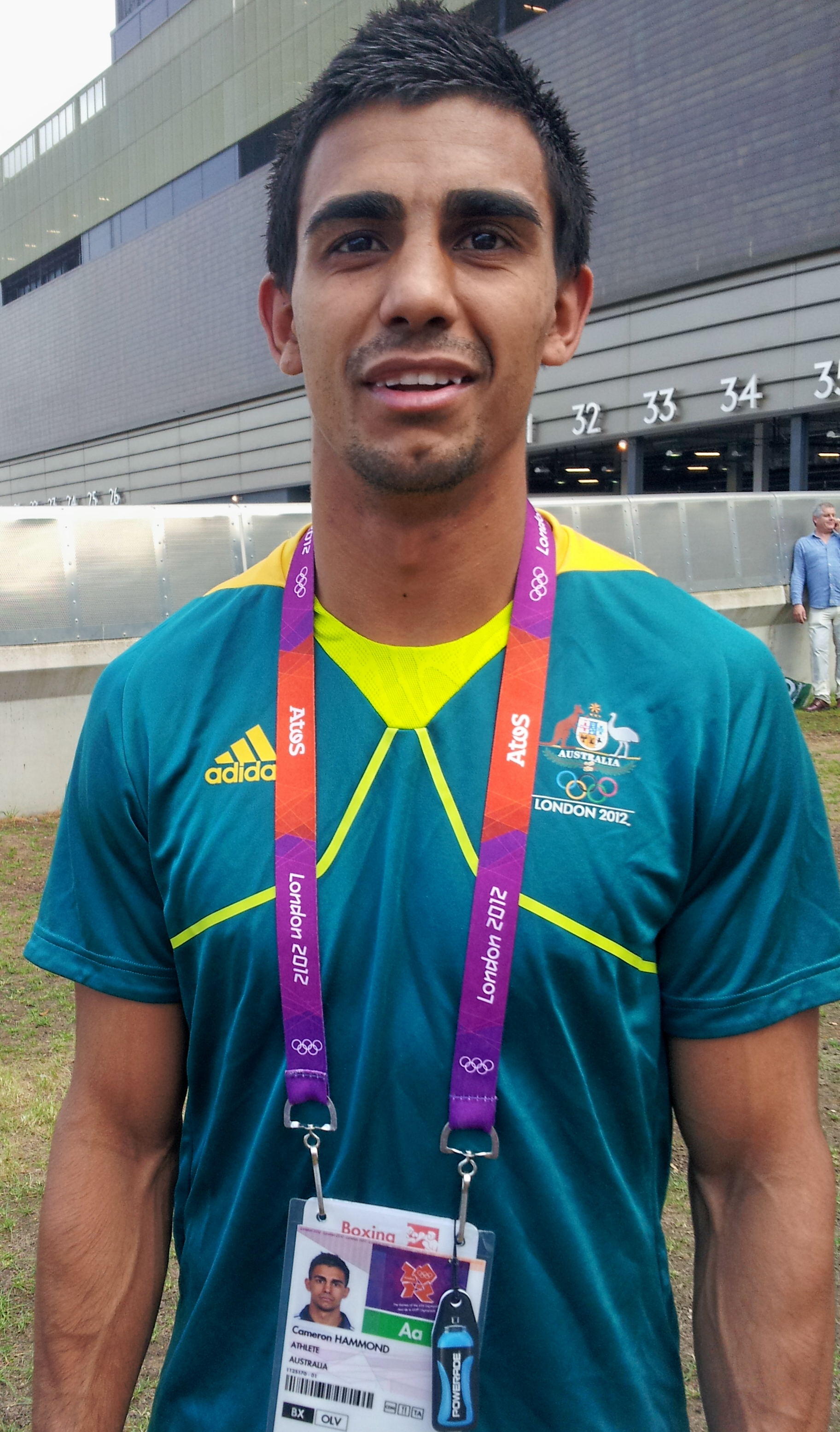 Australian boxer Cameron Hammond, taken at The London 2012 Summer Olympic Games